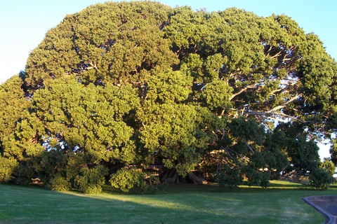 Ficus obliqua at Princes Highway, Milton New_South_Wales